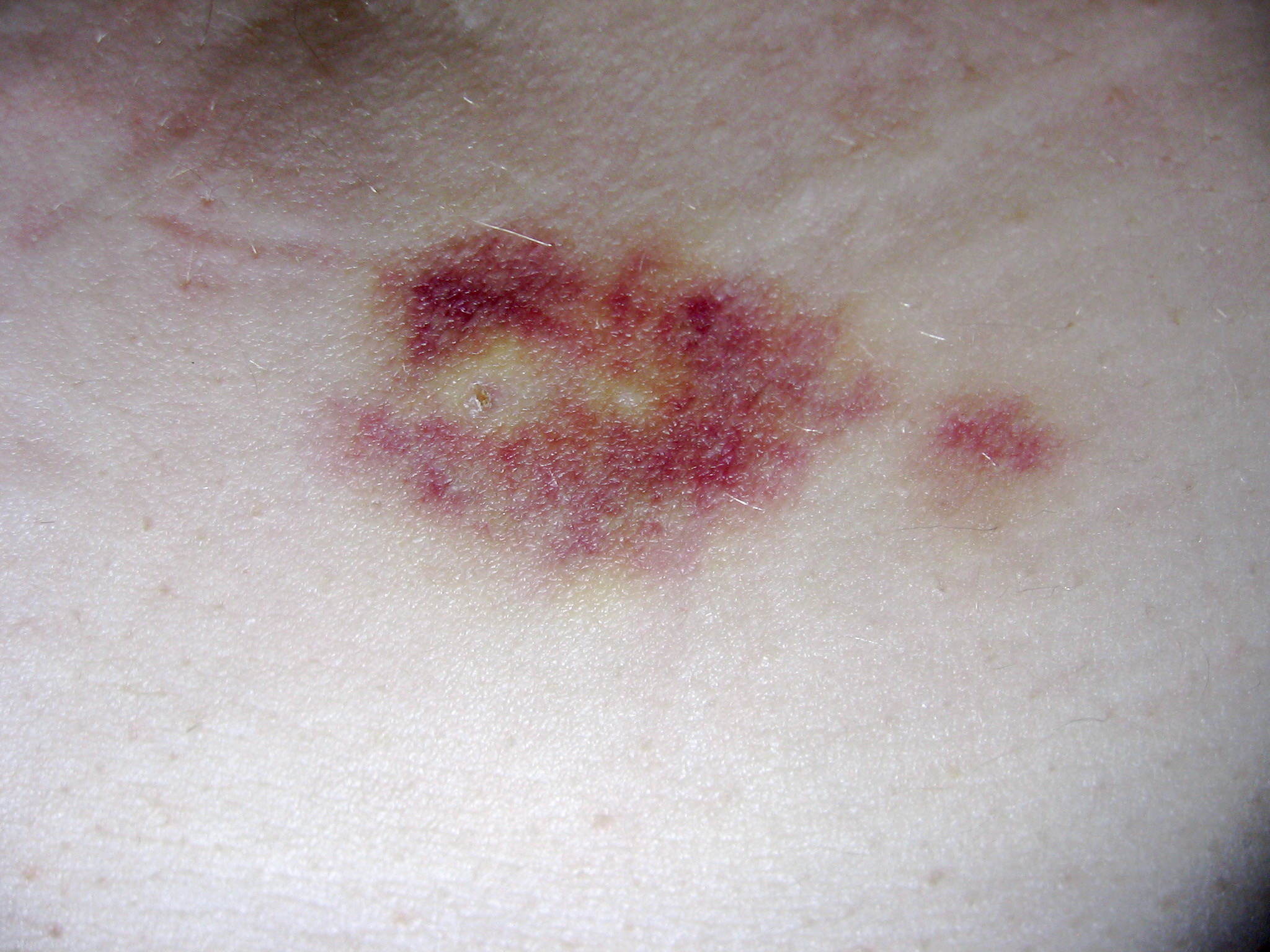 A 2" bruise resulting from a subcutaneous implant. Patient was injected four days previously. The entry wound is clearly visible, as well as the disruption in blood vessels where the implant was ejected from the syringe.